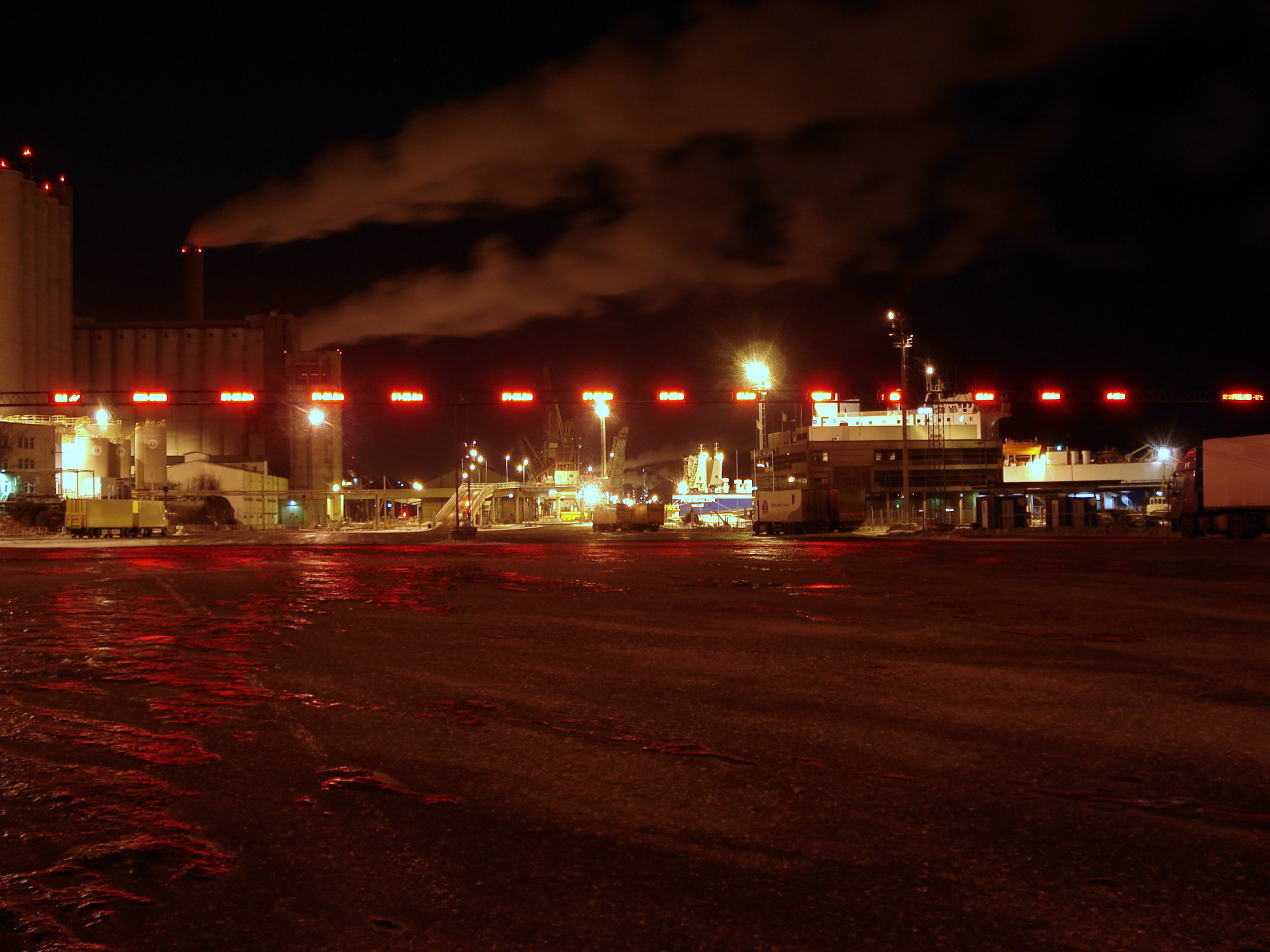 Port of Naantali in Naantali, Finland. Behind the terminal is MS Finnsailor owned by Finnlines.